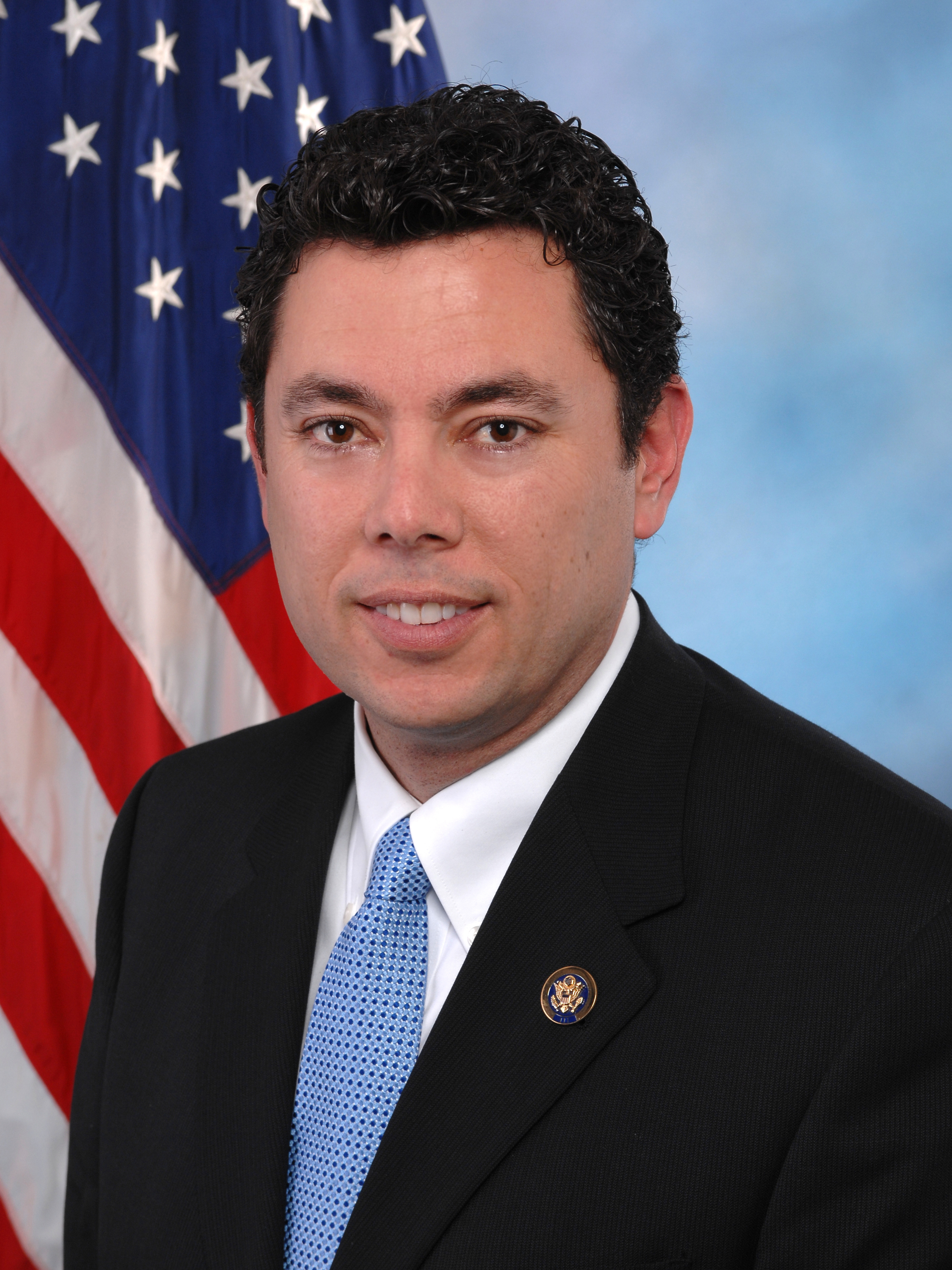 Jason Chaffetz, member of the United States House of Representatives